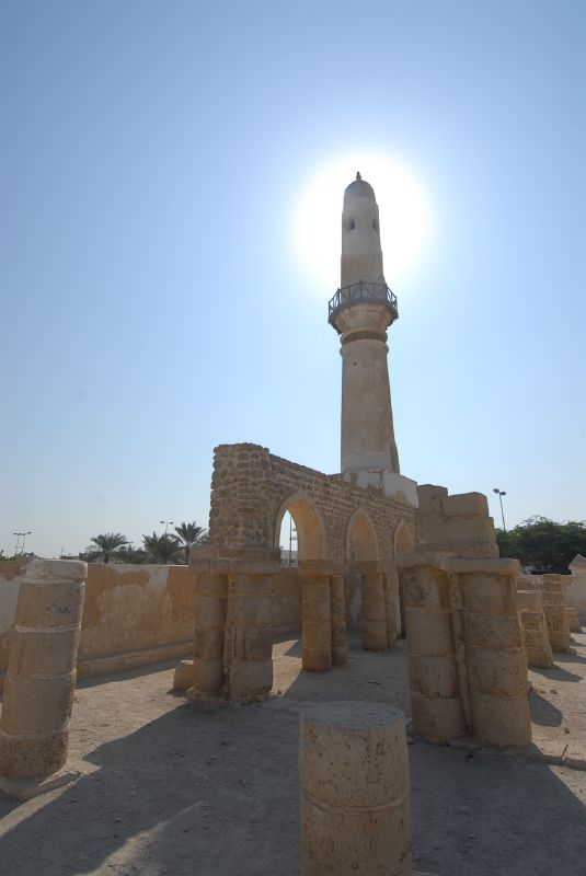 A photo of one of the minarets of Al Khamis mosque, in the Khamis neighborhood of Manama, Bahrain.